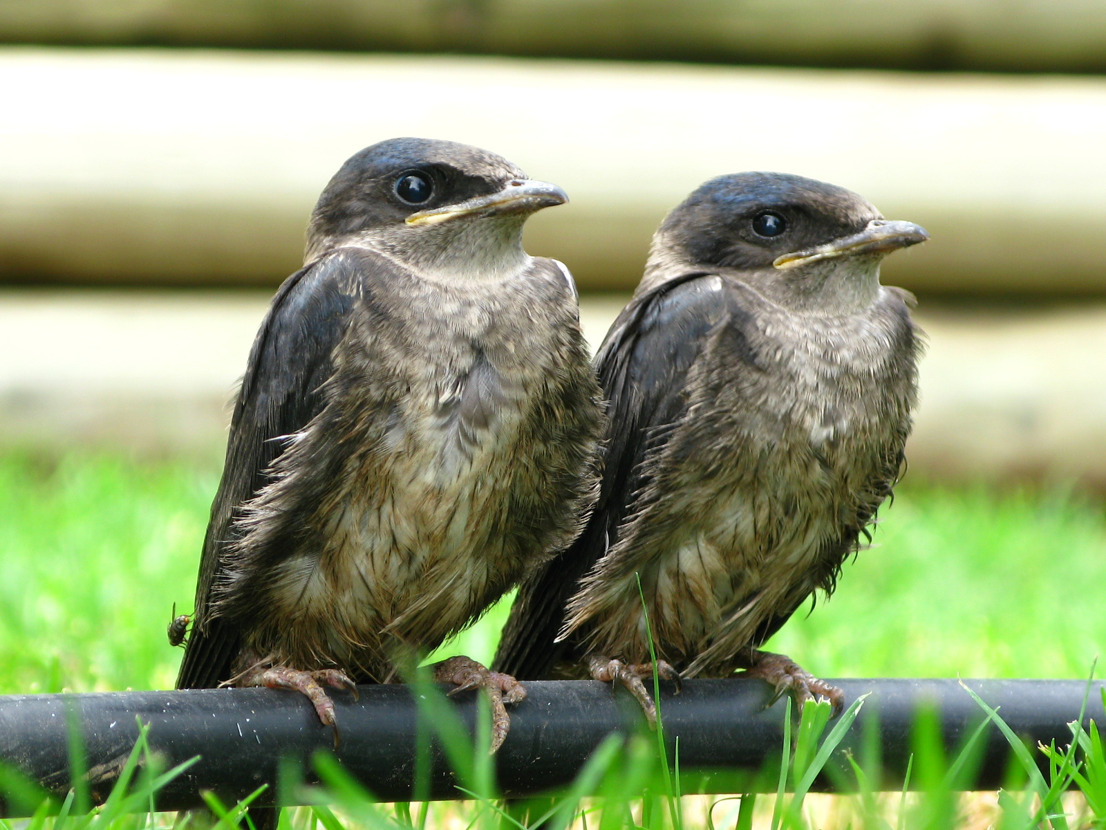 Two fledgling Purple Martins in Tulsa, Oklahoma, USA. Looks like a fly was hitching a ride on one of their backs.